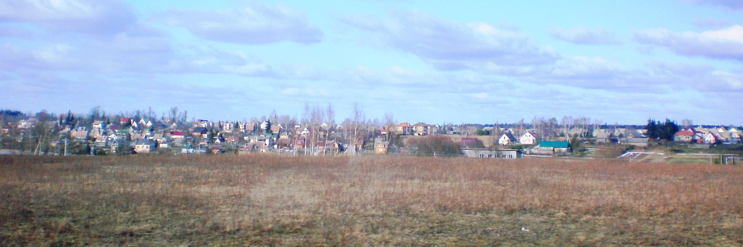 Kuršėnai, Lithuania